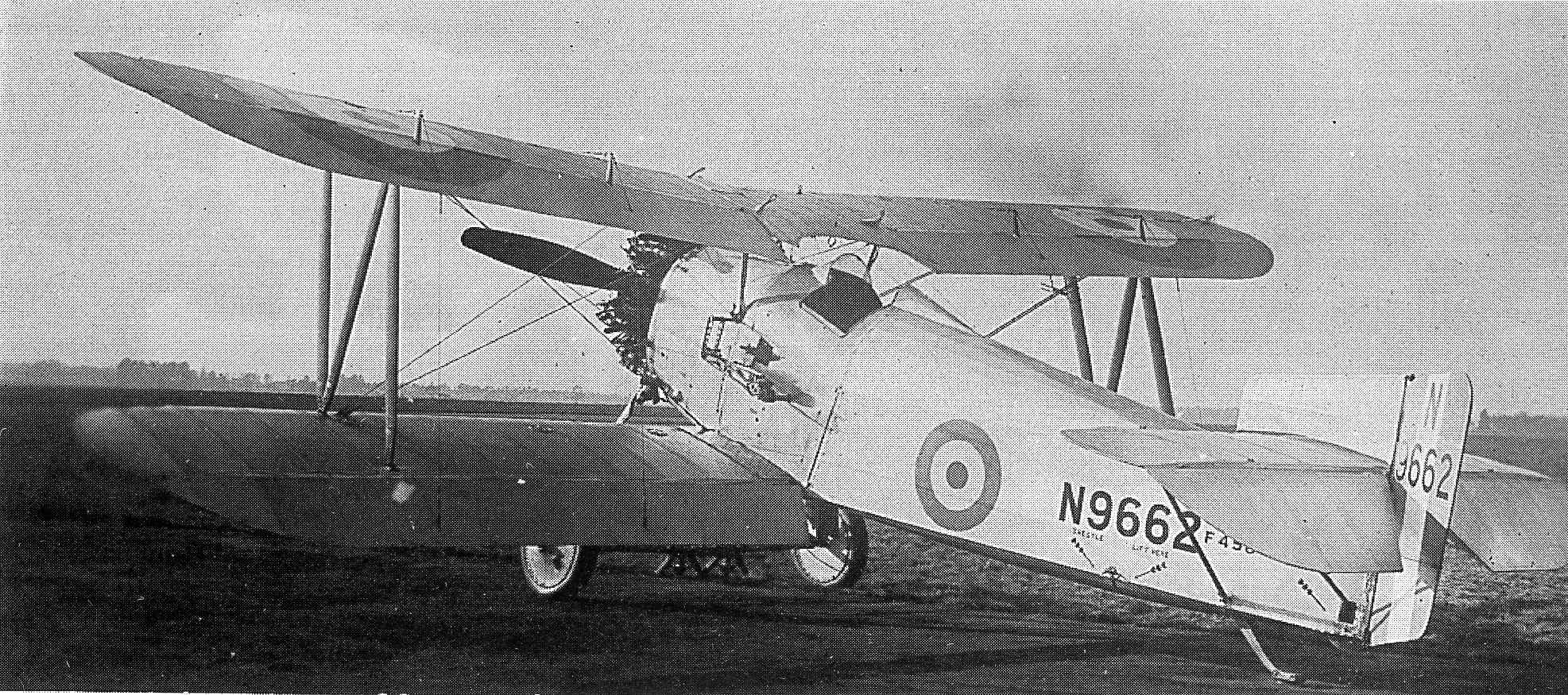 Fairey Flycatcher N9662 in 1927